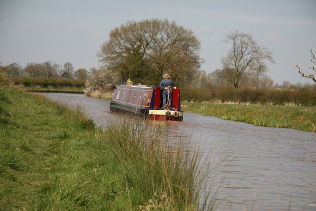 Shropshire Union near Hoolgrave Manor